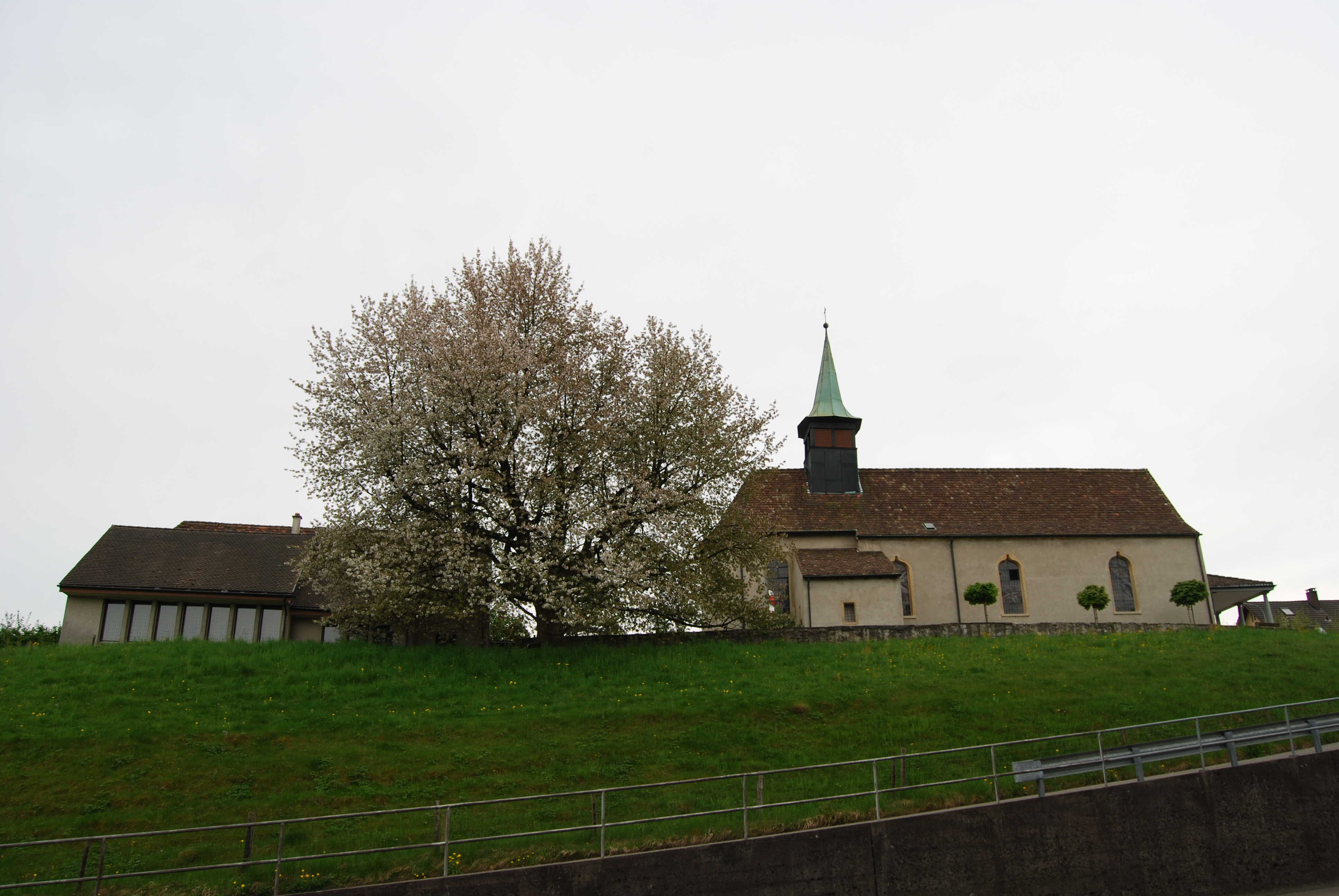 Church of Starrkirch-Wil, canton of Solothurn, Switzerland